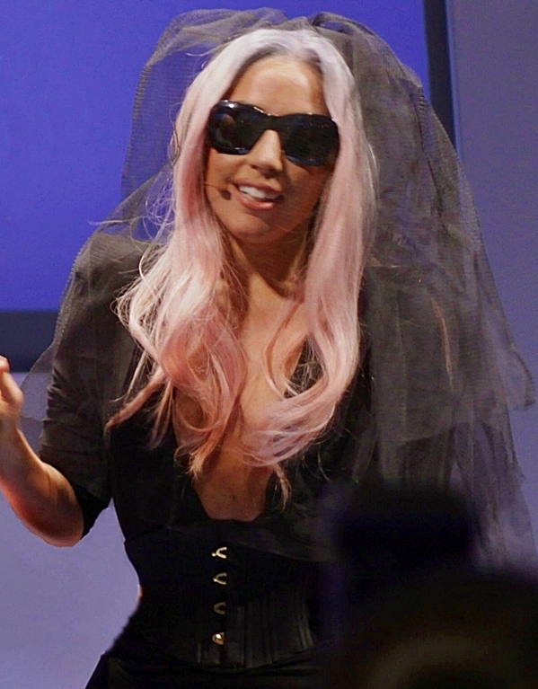 Lady Gaga at the the Polaroid CES Grey Label reveal.